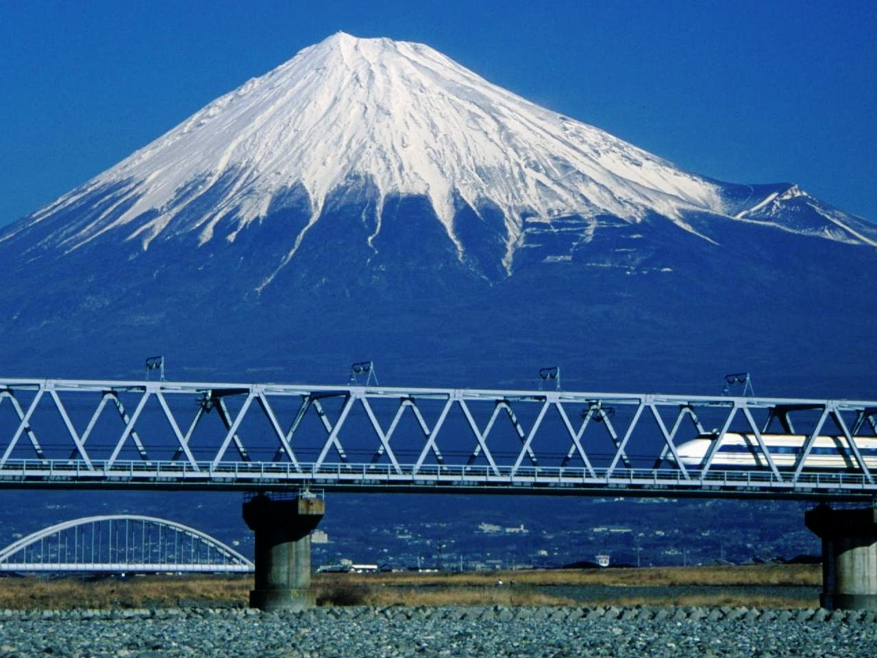 Mount Fuji and 100 Series Shinkansen from Fuji River